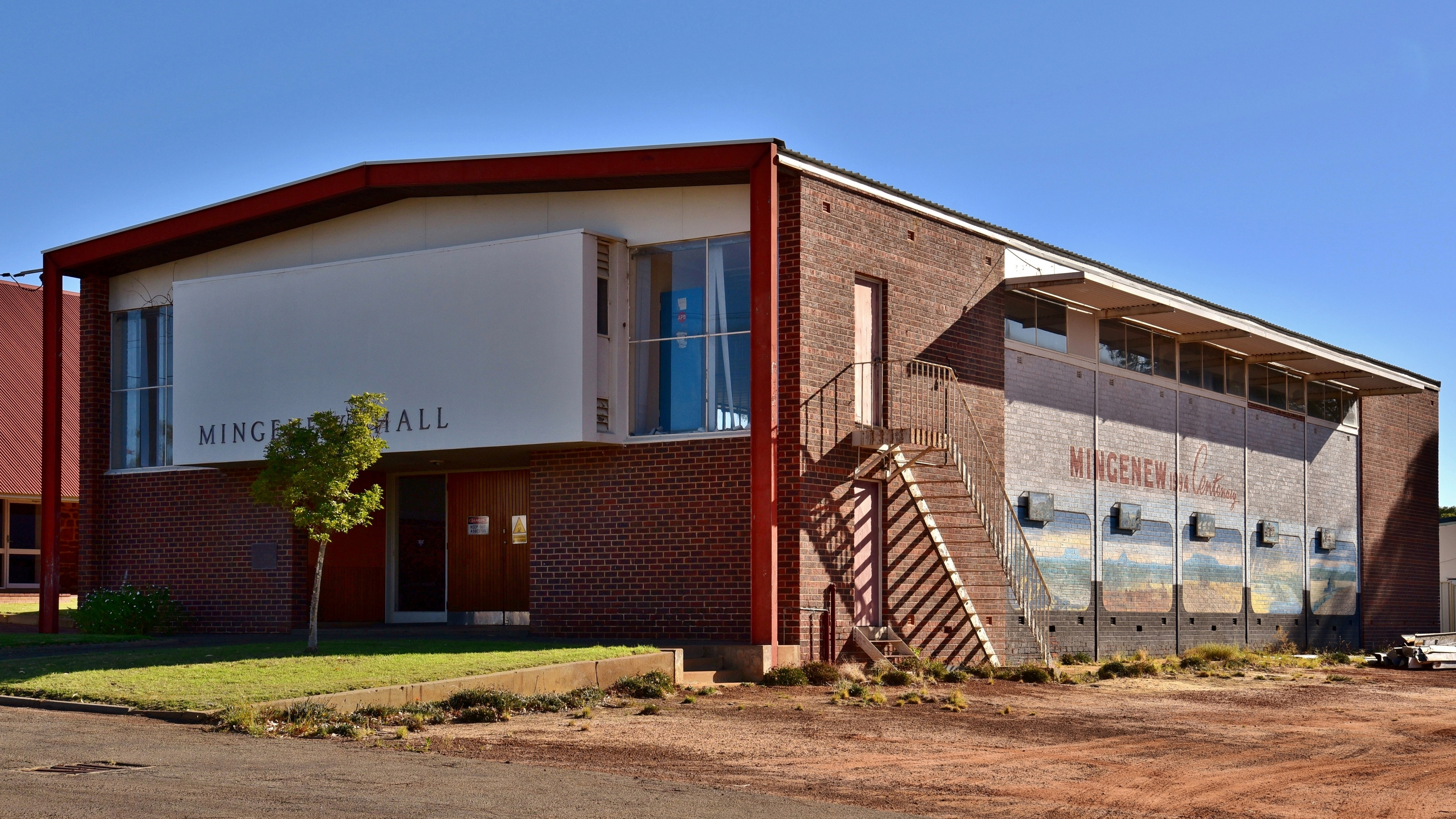 View of the Town Hall, Victoria Road, Mingenew, Western Australia